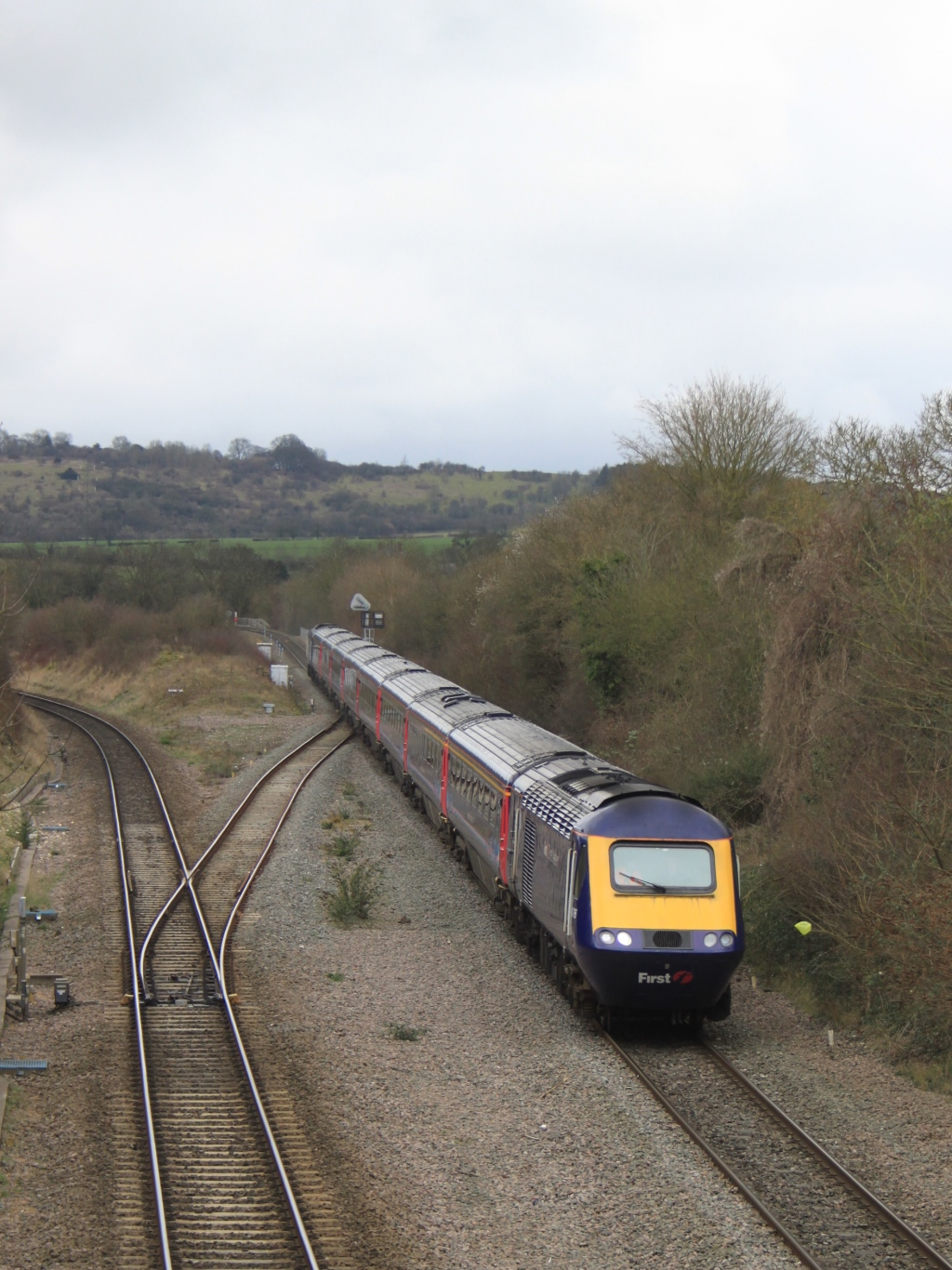 A First Great Western service approaches Princes Risborough. It is on the down line over Saunderton Summit; the line curving to the left is the up line through Saunderton Tunnel. 43196 and 43088 are heading for Weston-super-Mare but the line out of London Padidngton is closed for engineering work so they are taking the route through the Chilterns to reach Didcot where they can regain the Great Western Main Line.